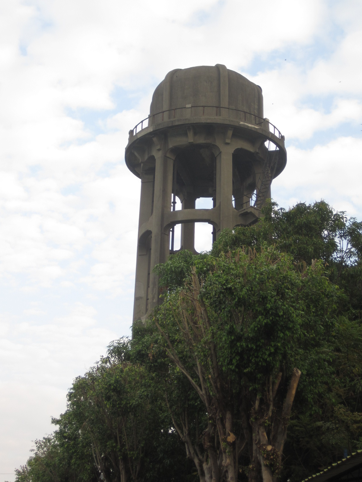 Gangshan Water Tower中文（台灣）: 臺灣高雄市岡山區舊水塔。